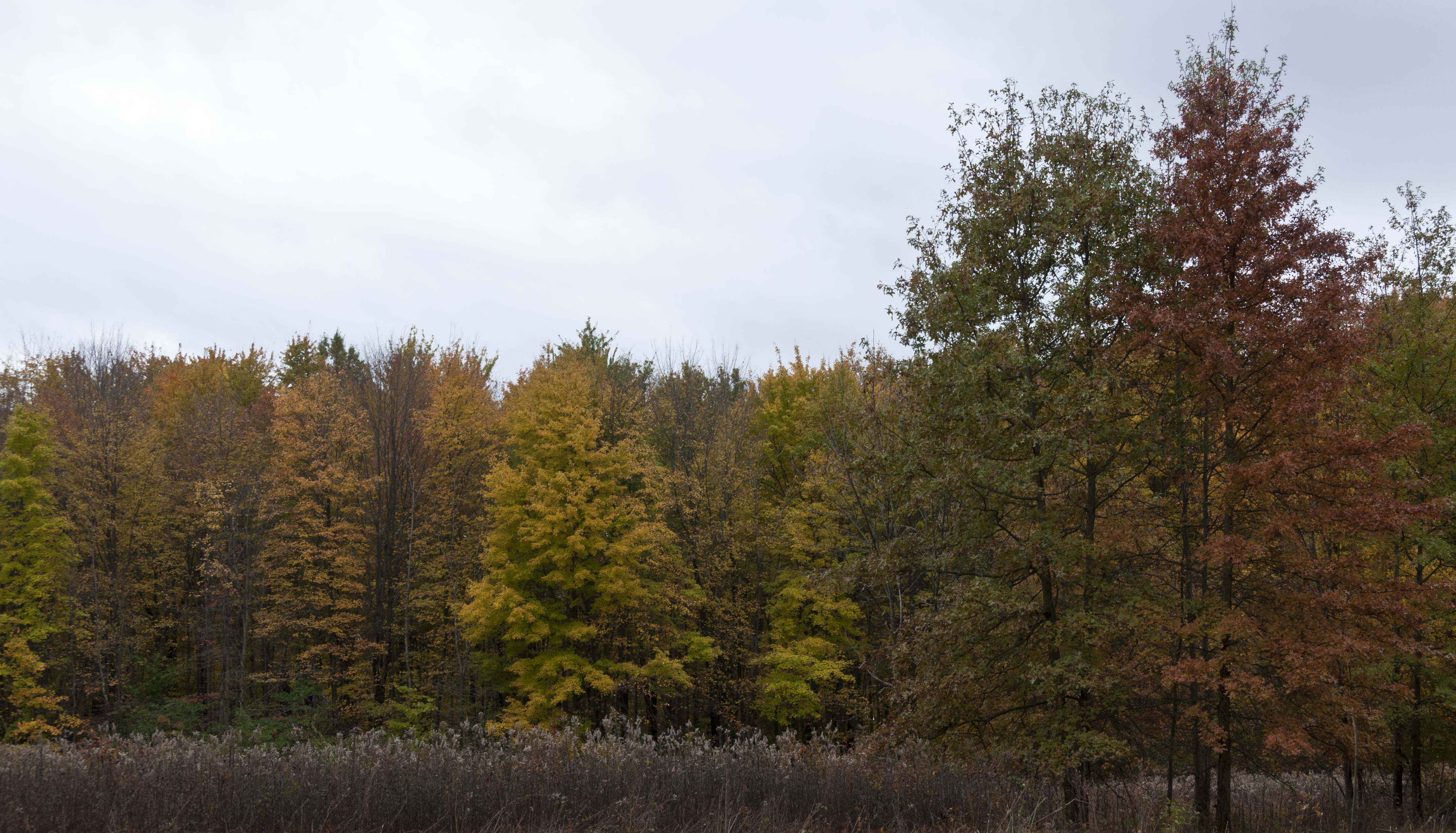 While hiking to the Walden Waterfowl Refuge around peak Fall I was able to take this shot of a mixture of Sugar and Red Maples Oaks, American Beech trees and the possibility of others as well. This photo was taken at the beginning of November in Blendon Woods Metro Park.